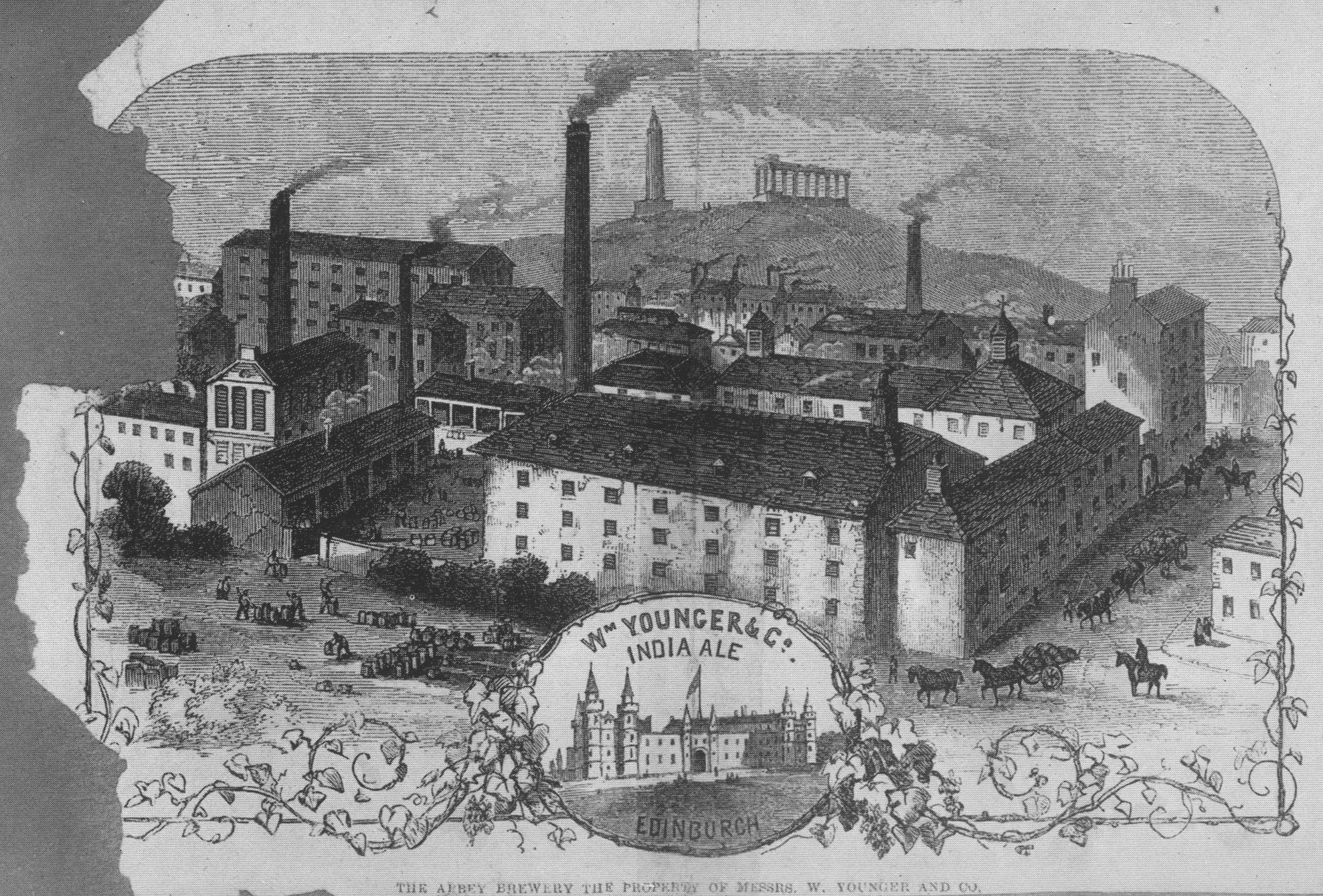 Younger's Abbey Brewery, Canongate, Edinburgh